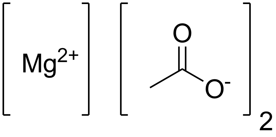 chemical structure of magnesium acetate